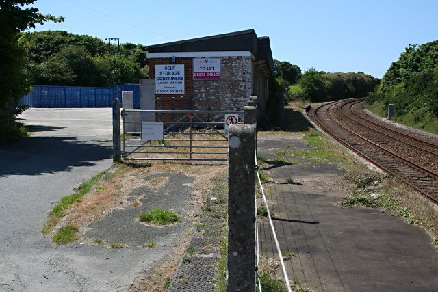 Chacewater railway station Original description: The Old Chacewater Station The Penzance bound platform still survives although the station is unused. It used to be the start of the Perranporth branch line until it was closed in 1963 when this station was also closed to passenger traffic.